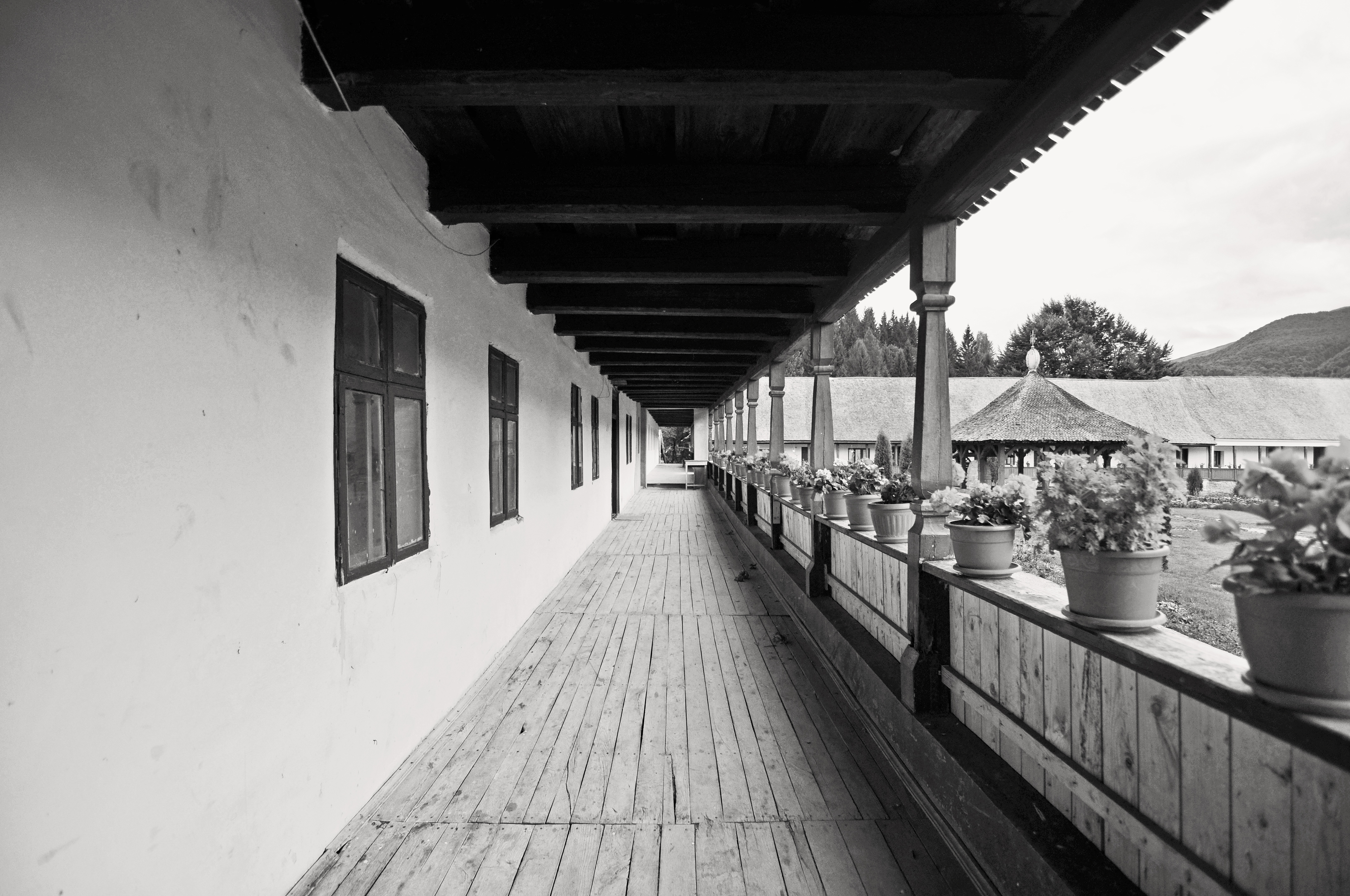 monks cells at Cheia Monastery